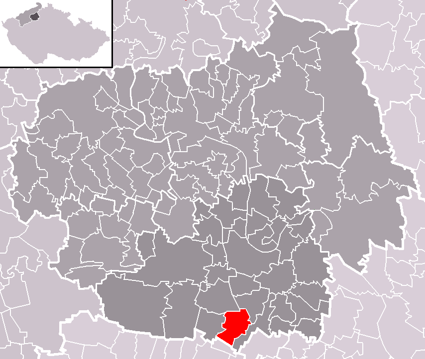 Location of Straškov-Vodochody municipality within Litoměřice District and administrative area of Roudnice nad Labem as a Municipality with Extended Competence.